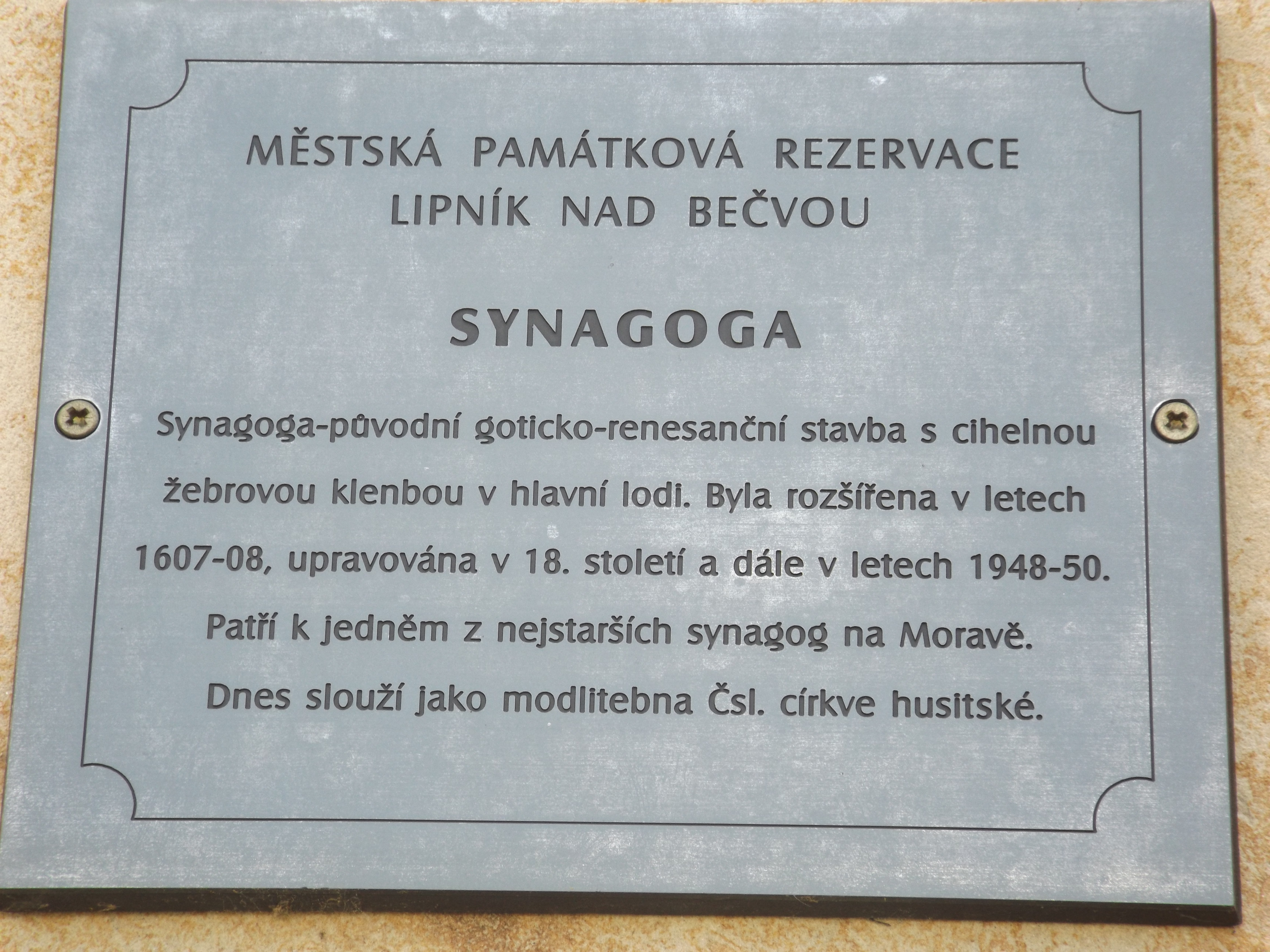 Sign next to main entry of synagogue